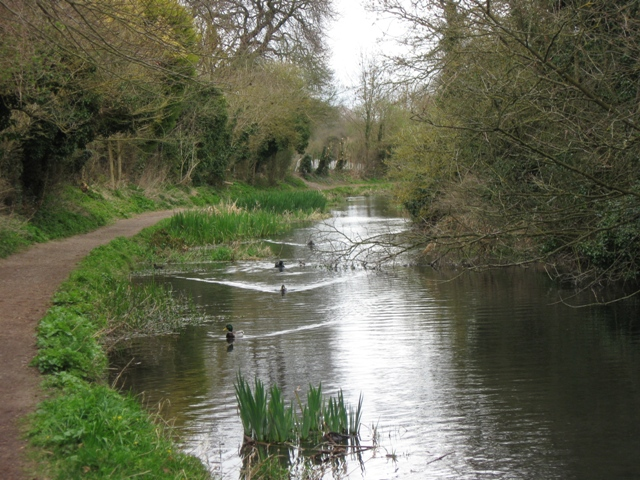 Wendover Arm: Reed Beds in the Canal